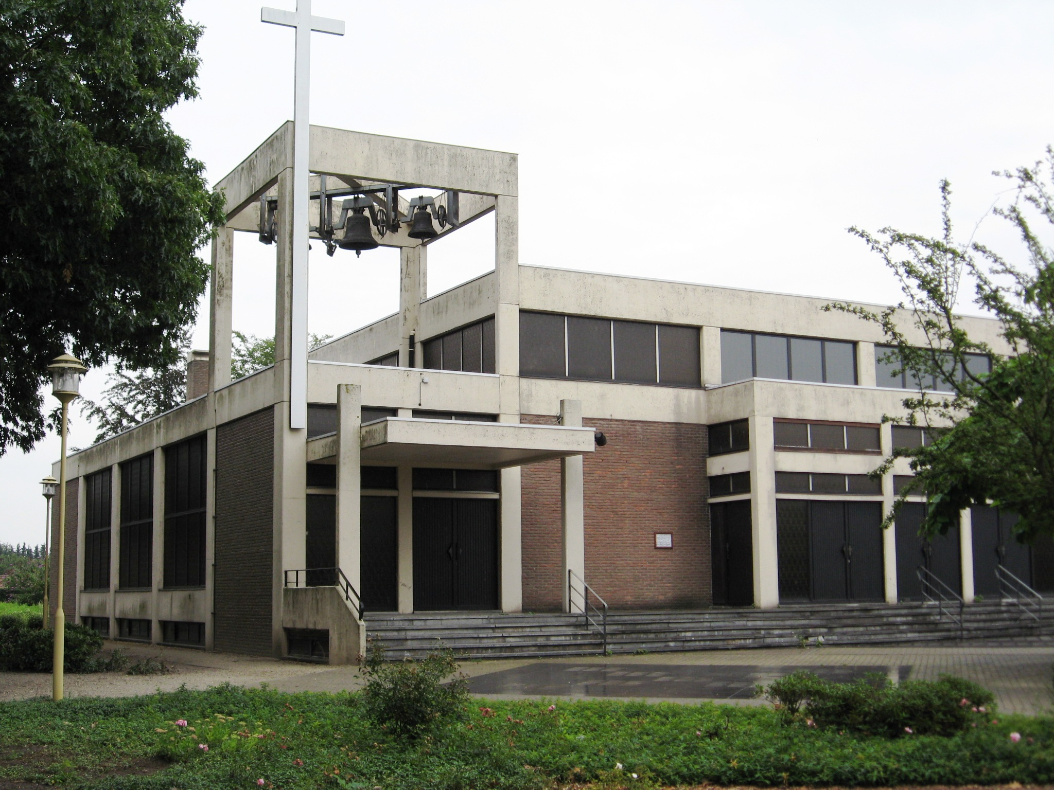 Church of Saint Gerald in Koersel (Stal), Limburg, Belgium